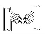 Dewclaws with complete bony sections, sketch from official standard